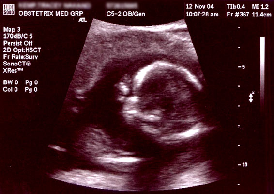 Obsteric ultrasonograph of a healthy female at 16 weeks. Thermal print taken 11/12/2004. Scanned by Jeremy Kemp Image:Obstetric ultrasonograph.jpg